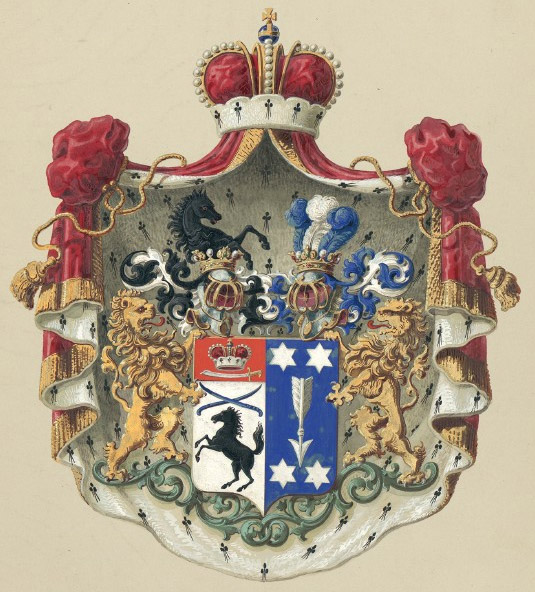 Coat of arms of Prince Simon Abashidze-Gorlenko (granted in 1886). From the General Roll of Arms of the Noble Families of the Russian Empire (Общий гербовник дворянских родов Российской империи), v. 14. 1890.